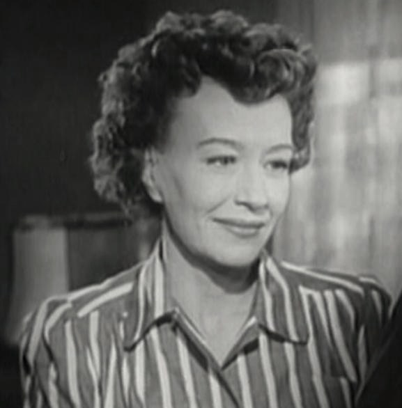 Ona Munson in The Red House (cropped screenshot)